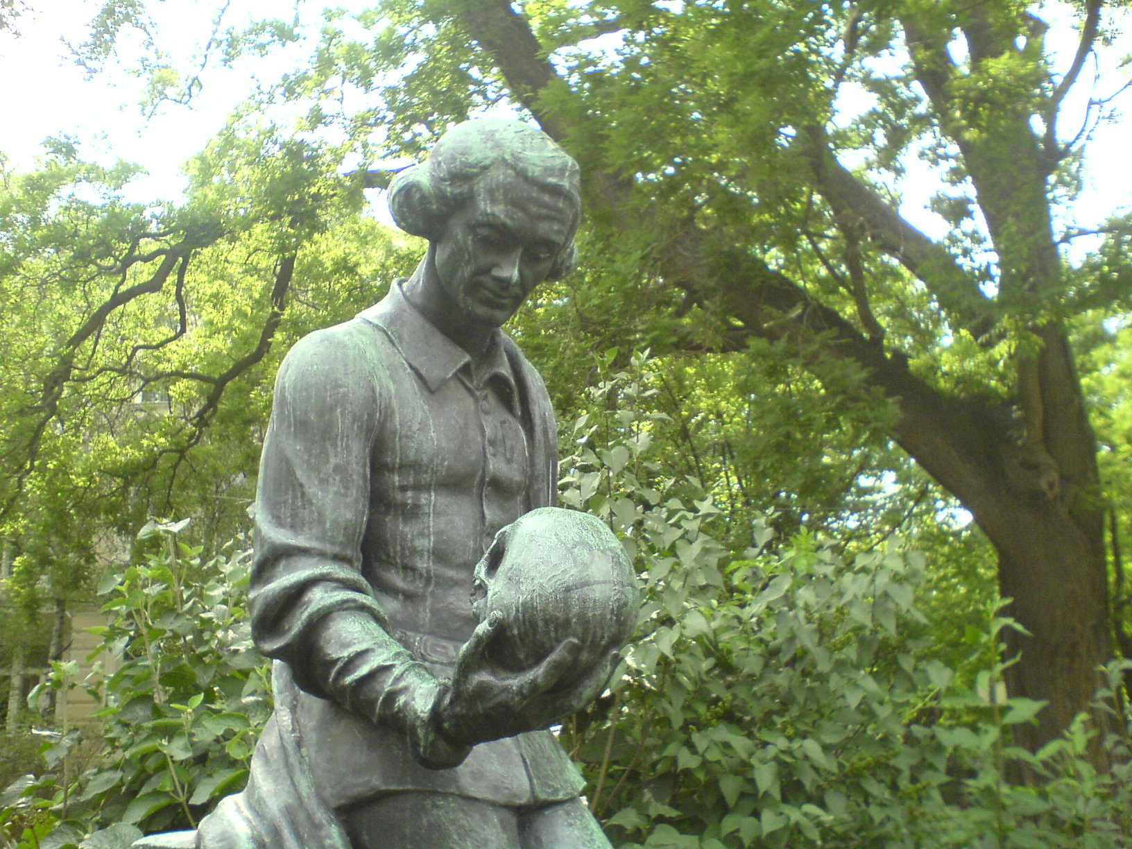 Statue of the Burgtheater actor Josef Kainz in Vienna